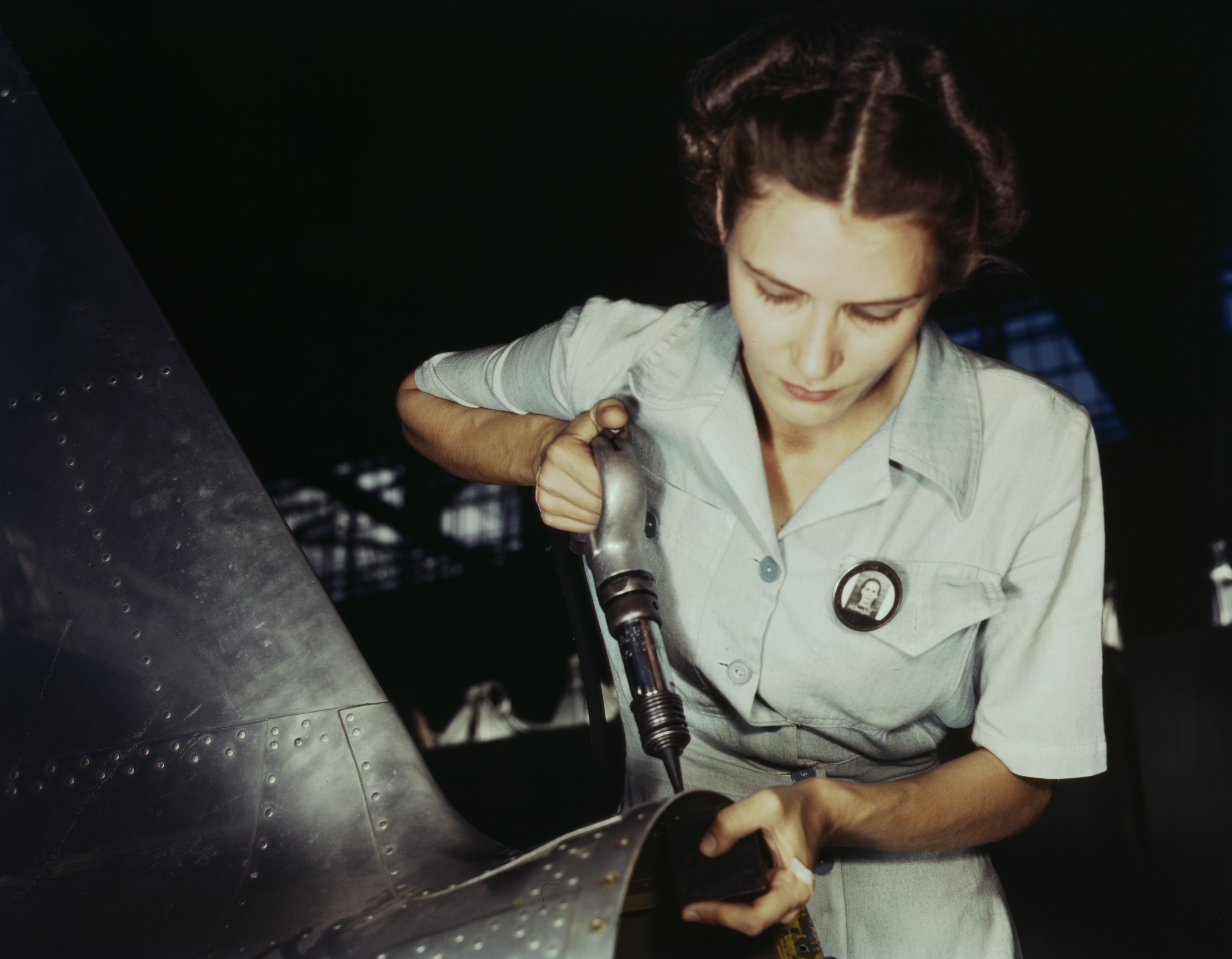 A Civil Service female worker working in the repair shop of the Naval Air Station Corpus Christi, Texas (USA), August 1942. Original caption: "Answering the nation's need for womanpower, Mrs. Virginia Davis made arrangement for the care of her two children during the day and joined her husband at work in the Naval Air Base, Corpus Christi, Texas. Both are employed under Civil Service in the Assembly and repair department. Mrs. Davis' training will enable her to take the place of her husband should he be called by the armed service."